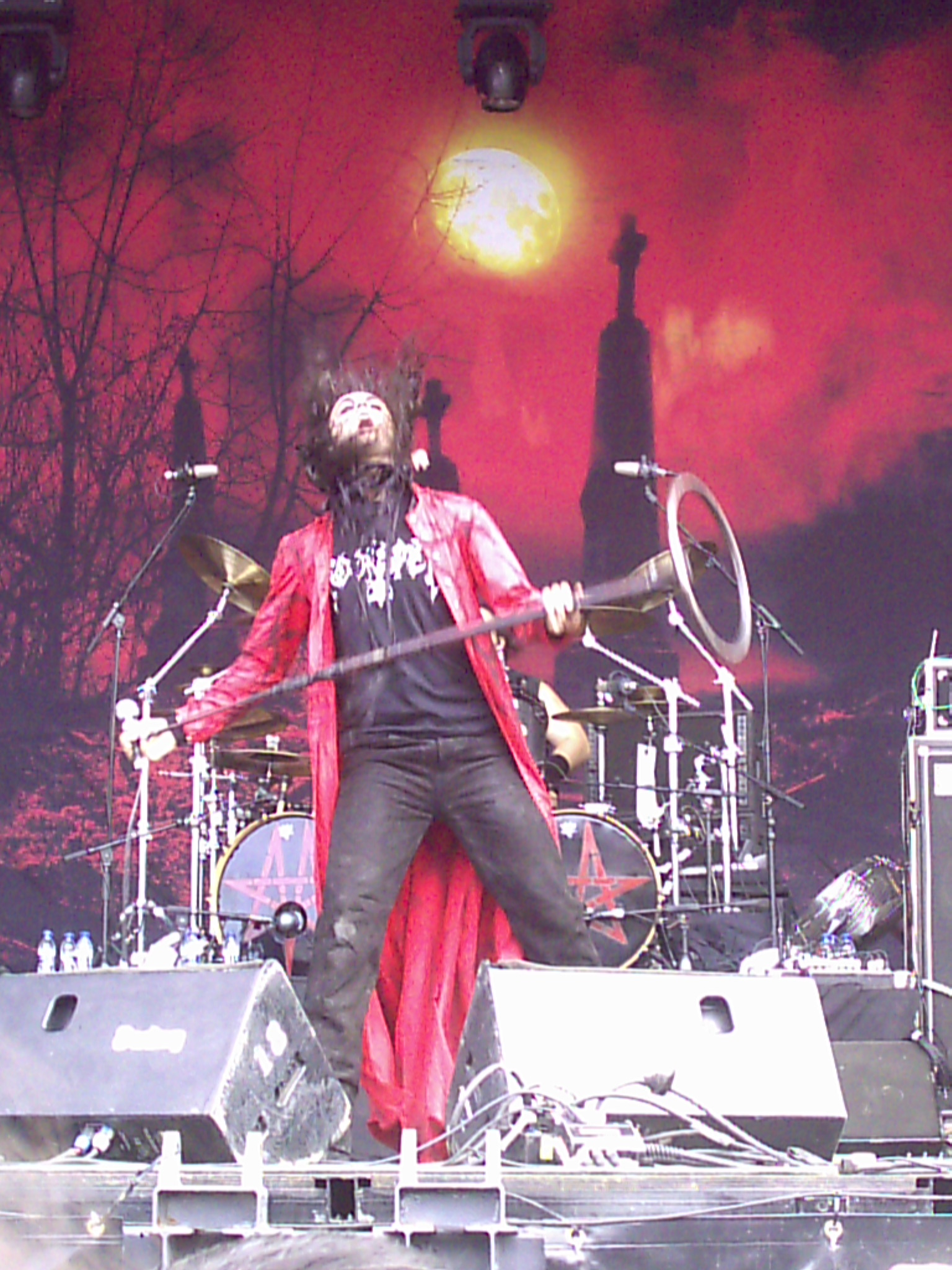 Fernando Ribeiro performing at Gernika's Metalway Festival 2006 (Spain) with his band Moonspell. Contact O_Menda if you want the original image or any other to improve it.